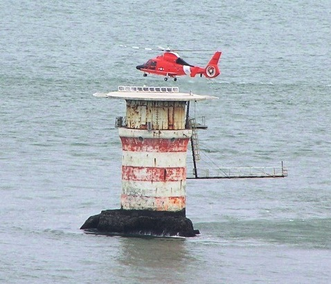 Mile Rocks Lighthouse (top portion removed in 1966) with helicopter.